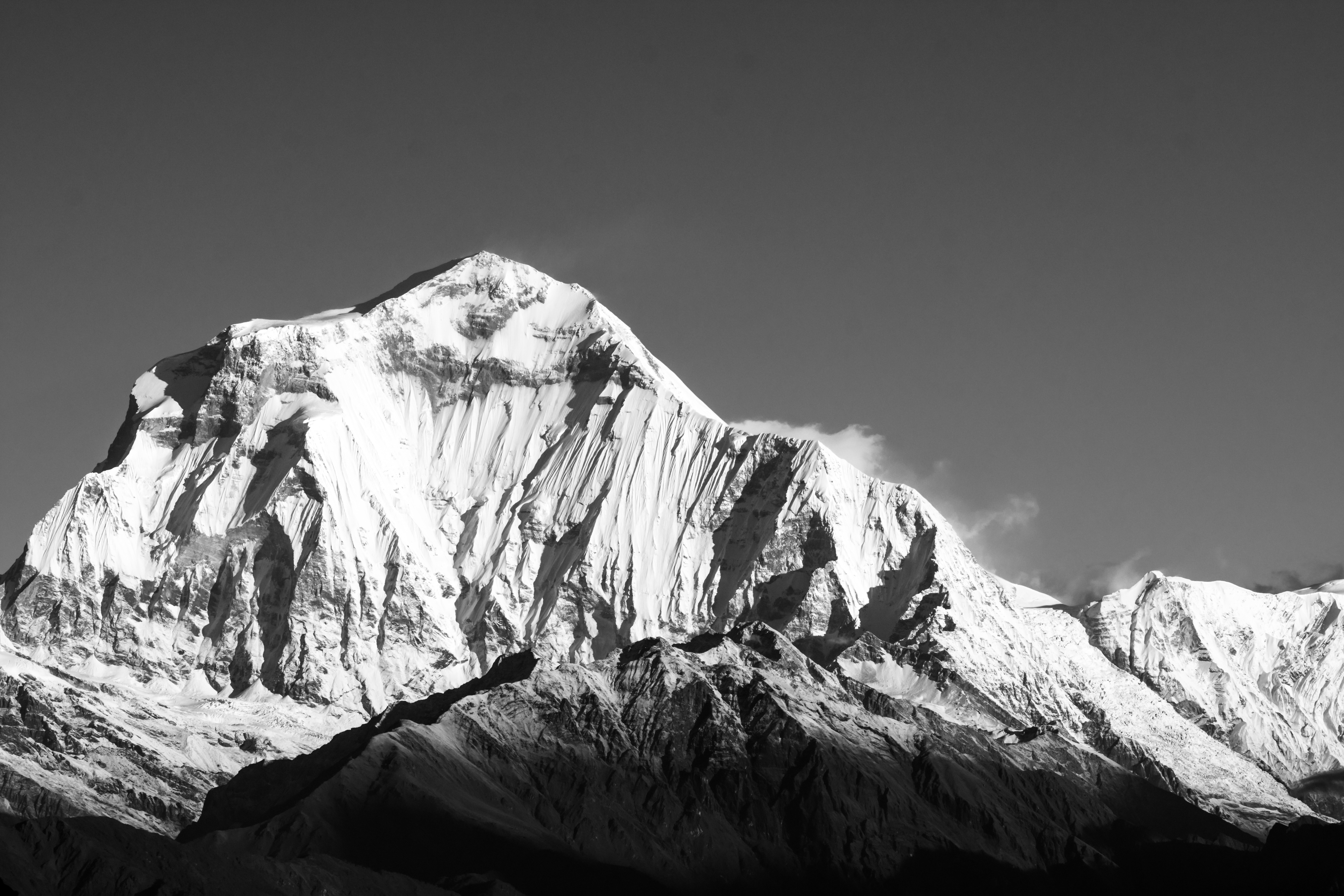 Mt. Dhaulagiri as seen from poonhill